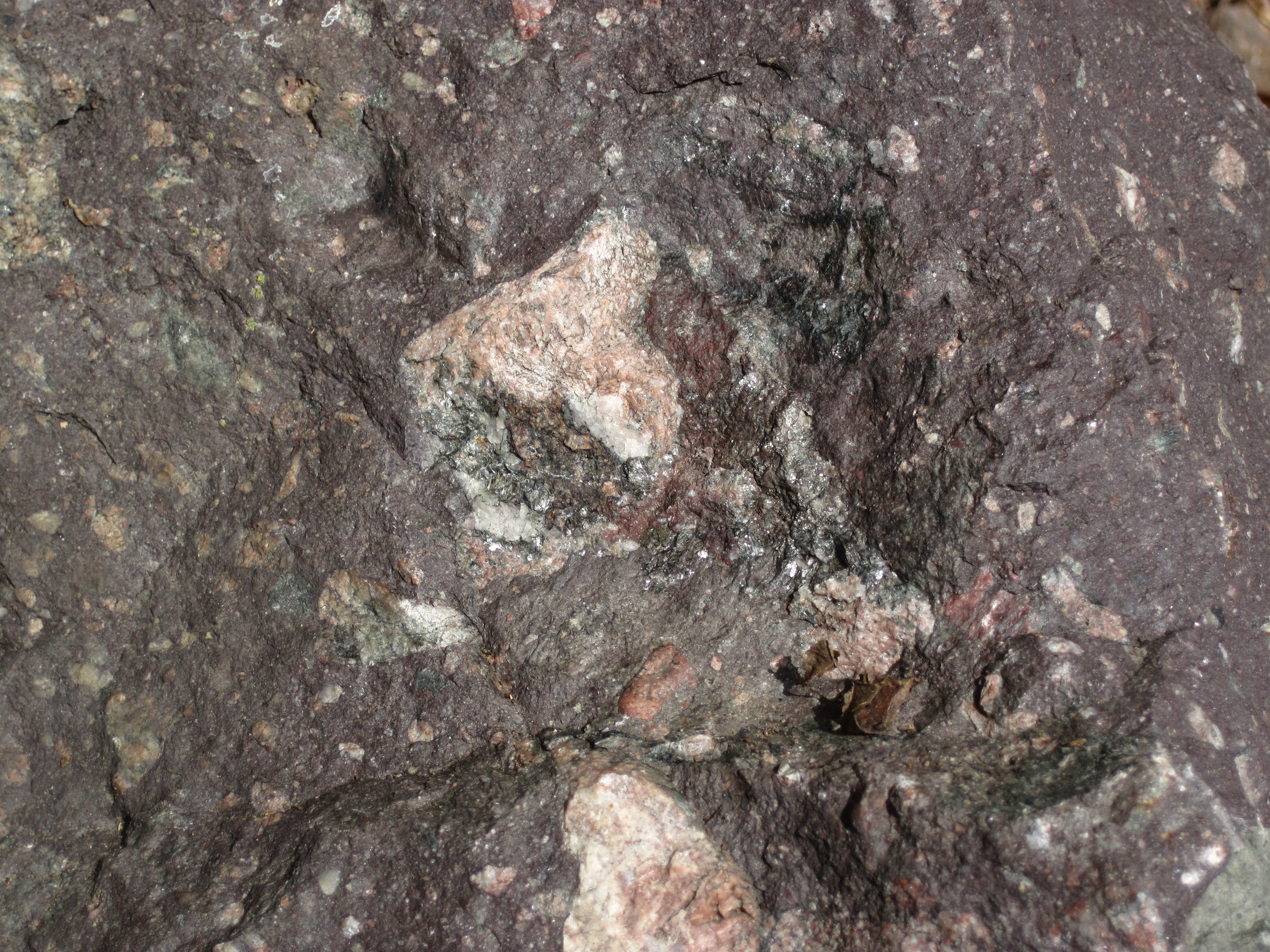 Diamictite in the Precambrian of Virginia, USA. The Snowball Earth Glaciations during the Neoproterozoic were the most significant ice ages that Earth ever experienced - two or three of them occurred in succession. The most extreme models describing Snowball Earth have glacial ice completely covering all continents and all oceans, even at the equator. Some models, called “Slushball Earth”, have Earth’s equatorial oceanic areas not completely frozen over. Each Snowball Earth Glaciation was followed by a super-greenhouse climate. The resulting sedimentary record of these “freeze-fry” events typically consists of glacial tillites and overlying cap carbonates. These units are preserved at many localities on Earth. The Virginia outcrop shown above consists of a Snowball Earth glacial conglomerate (polylithic diamictite), with non-bedded matrix-supported clasts. This was originally a glacial till. With burial and lithification, till becomes tillite. The rocks in this area have been subjected to very low grade metamorphism, so the tillite is now a metatillite. The clasts vary in lithology, origin, and age. The most conspicuous clasts are speckled granites (dominated by quartz and potassium feldspar), derived from the 1.0 to 1.3 billion year old Cranberry Gneiss. Stratigraphy: Konnarock Formation, Neoproterozoic, ~750 Ma Locality: roadcut on the northern side of Rt. 603, immediately west of the Rt. 603- Rt. 755 intersection, just west of the town of Konnarock, southeastern Washington County, southwestern Virginia, USA (36º 39' 49.34" North latitude, 81º 38' 45.54" West longitude)